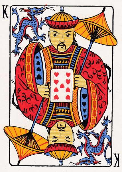 King card from the Khanhoo card deck produced by Thomas De La Rue in 1895.